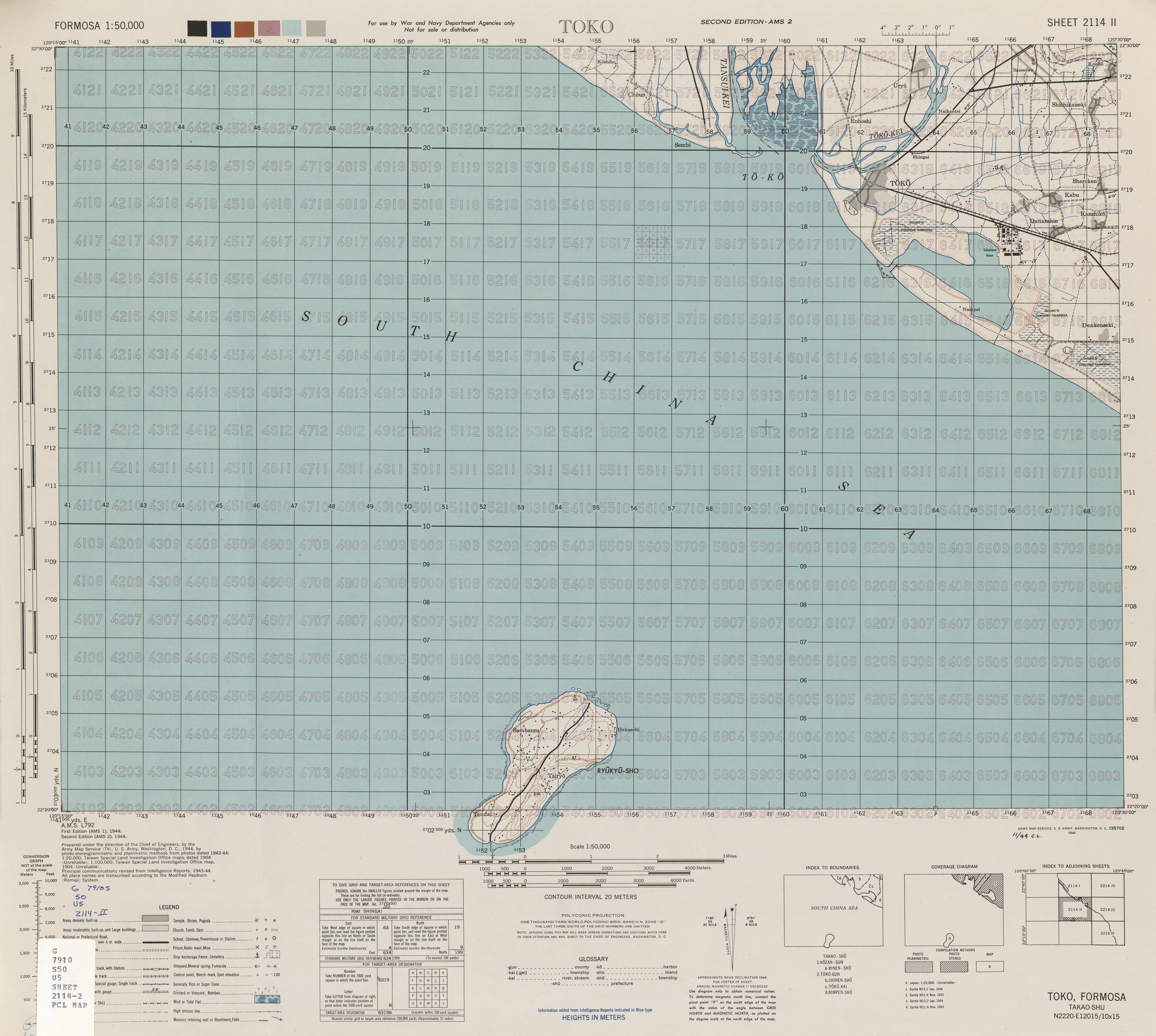 Map from Formosa (Taiwan) 1:50,000 AMS Series L792